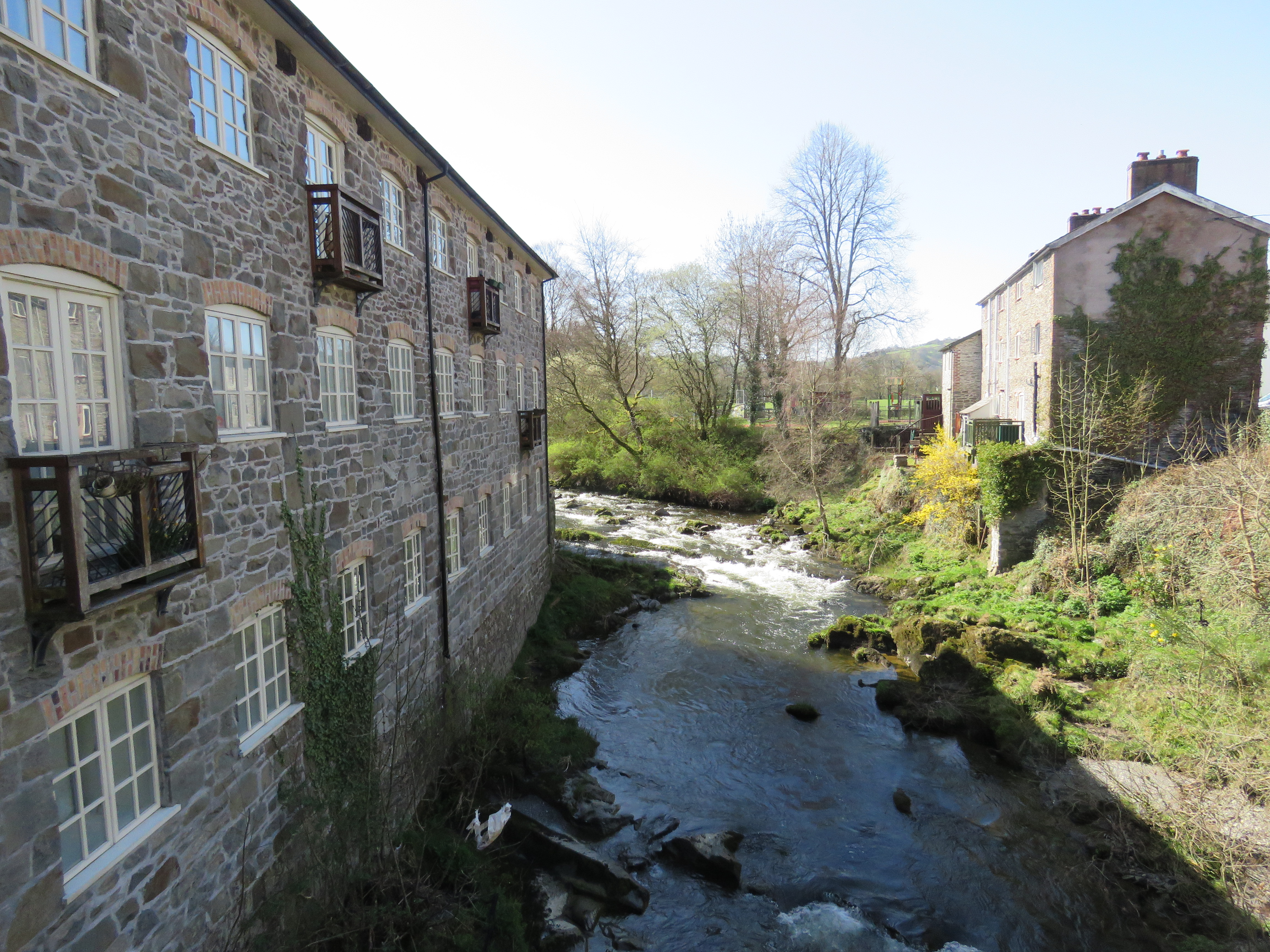 former Bridgend flannel mill (now apartments) and River Severn, Llanidloes